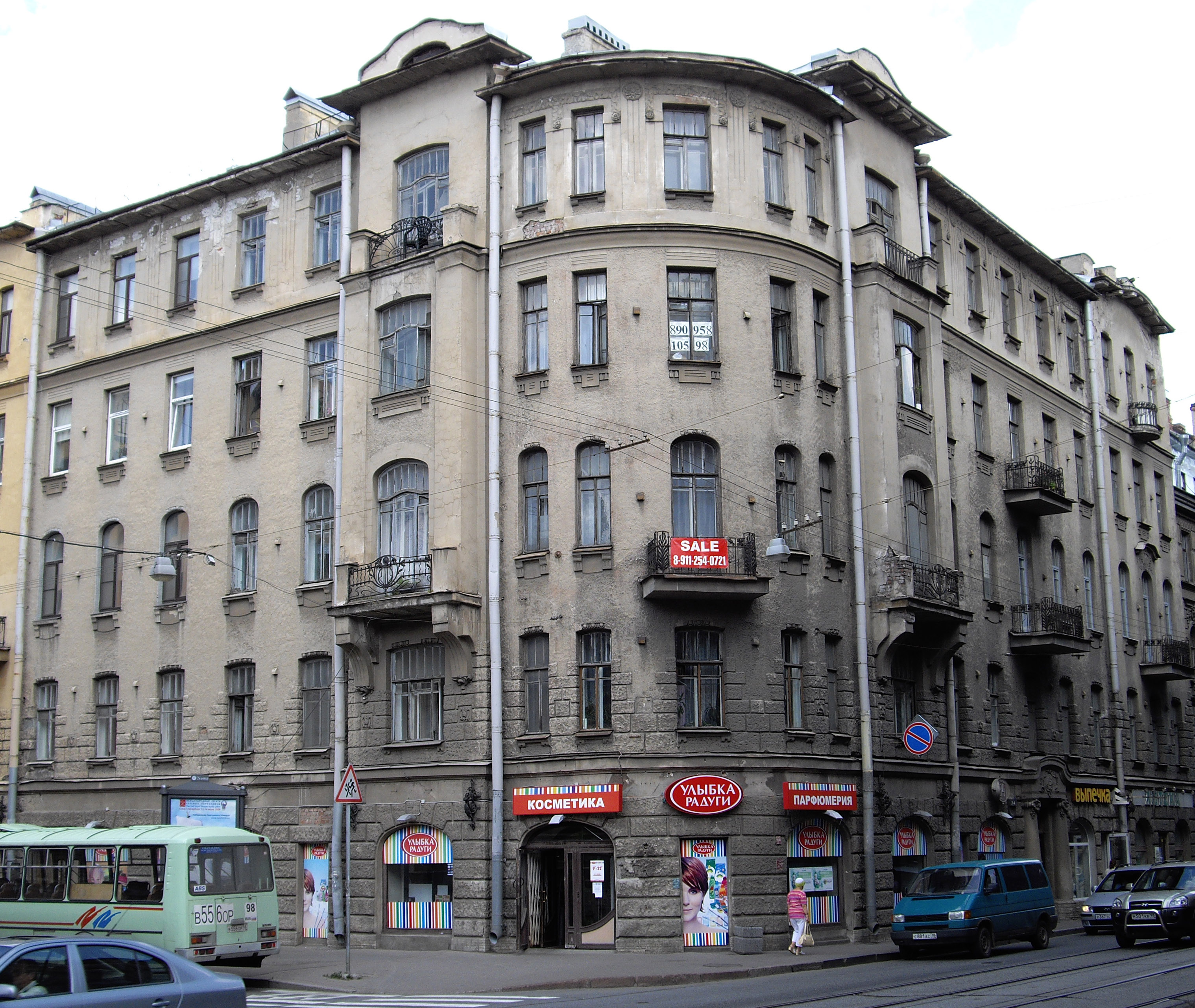 1, Pudozhskaya Street / 34, Chkalovsky Prospekt (Saint-Petersburg, Russia). Architect Hyppolit Pretreaus, 1902-1904.